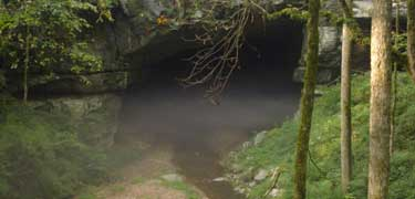 Entry of one of the cave shelters in Russel Cave National Monument, Alabama, USA